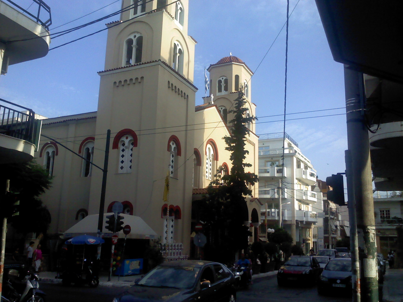 Churche Ipapantis Tampouria